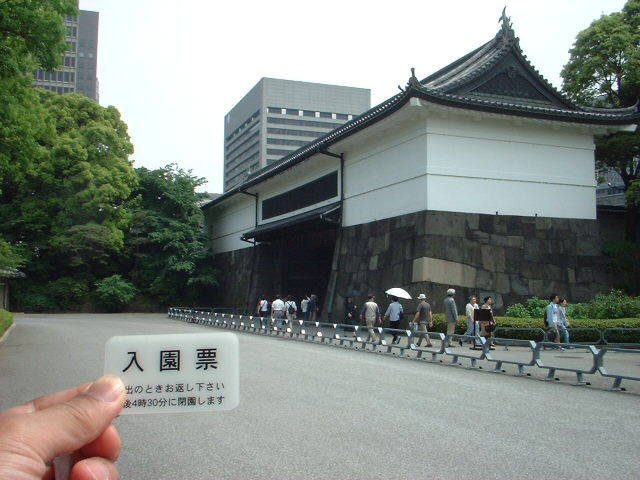 Inner gate of Otemon of Edo castle